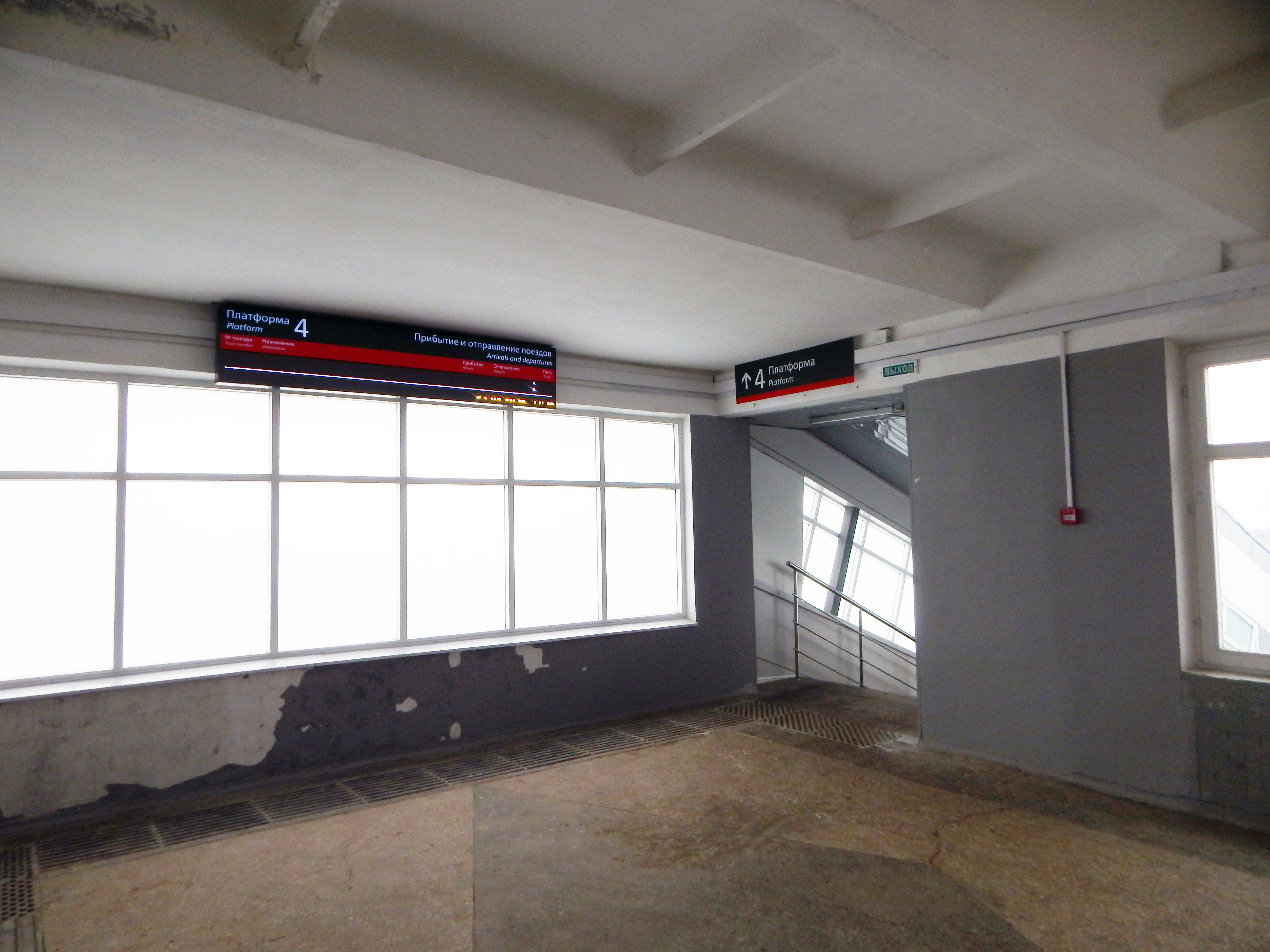 Concourse of Vladimir Railway station, Vladimir, Russia